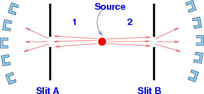 Created by Tabish Qureshi